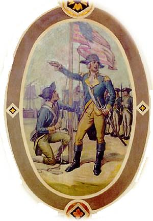 Colonel John Hamtramck takes possession of Fort Lernoult